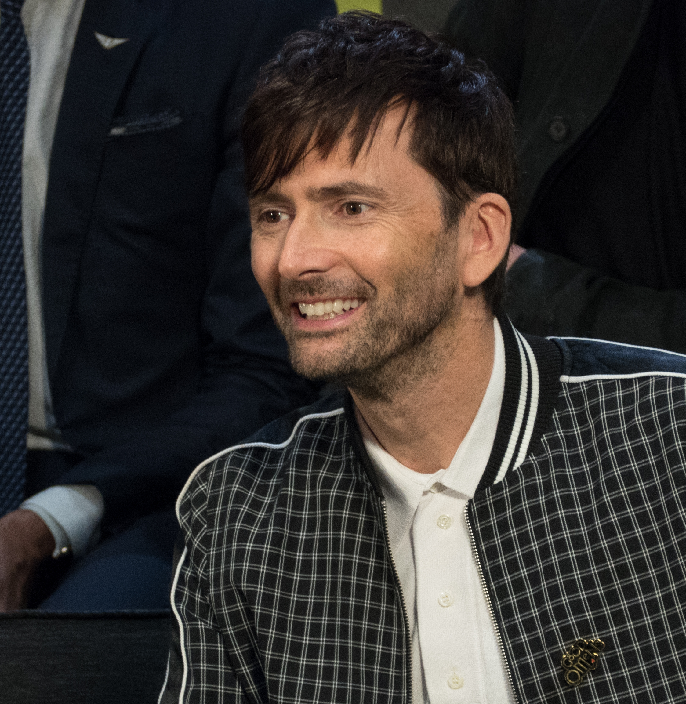 David Tennant on the Good Omens panel at New York Comic Con in October 2018.